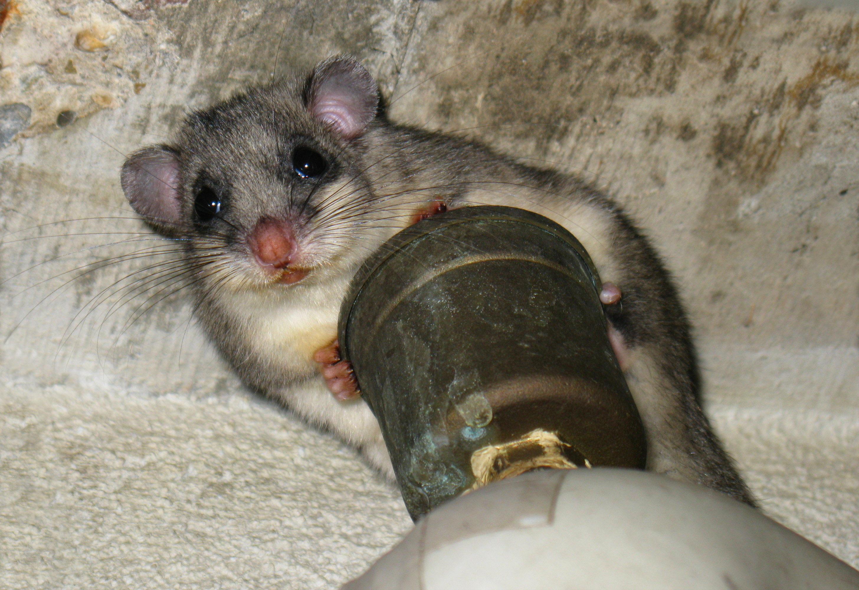 Edible dormouse (Glis glis)